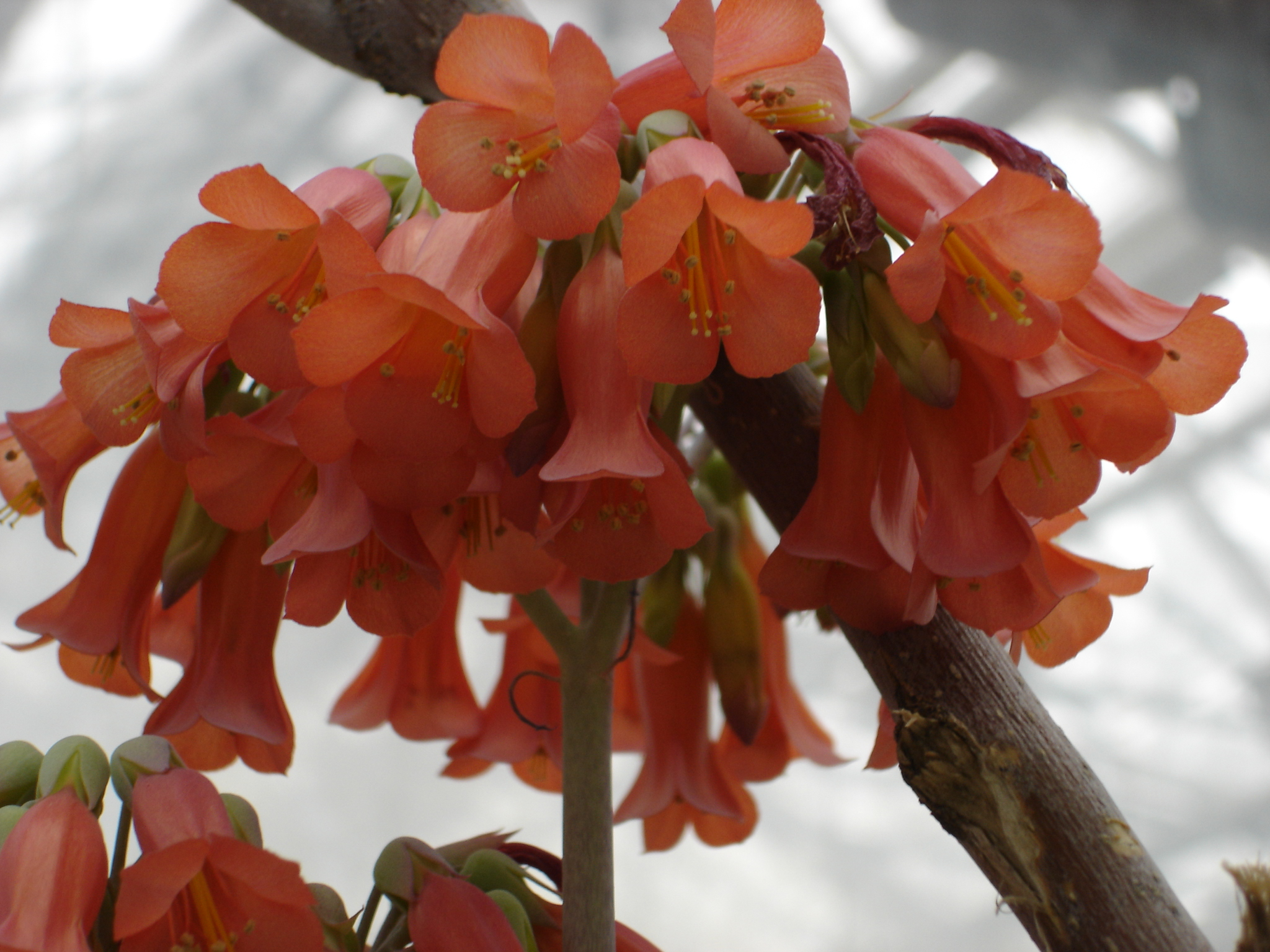 Kalanchoe fedtschenkoi flowers in a greenhouse in Provo, Utah, USA